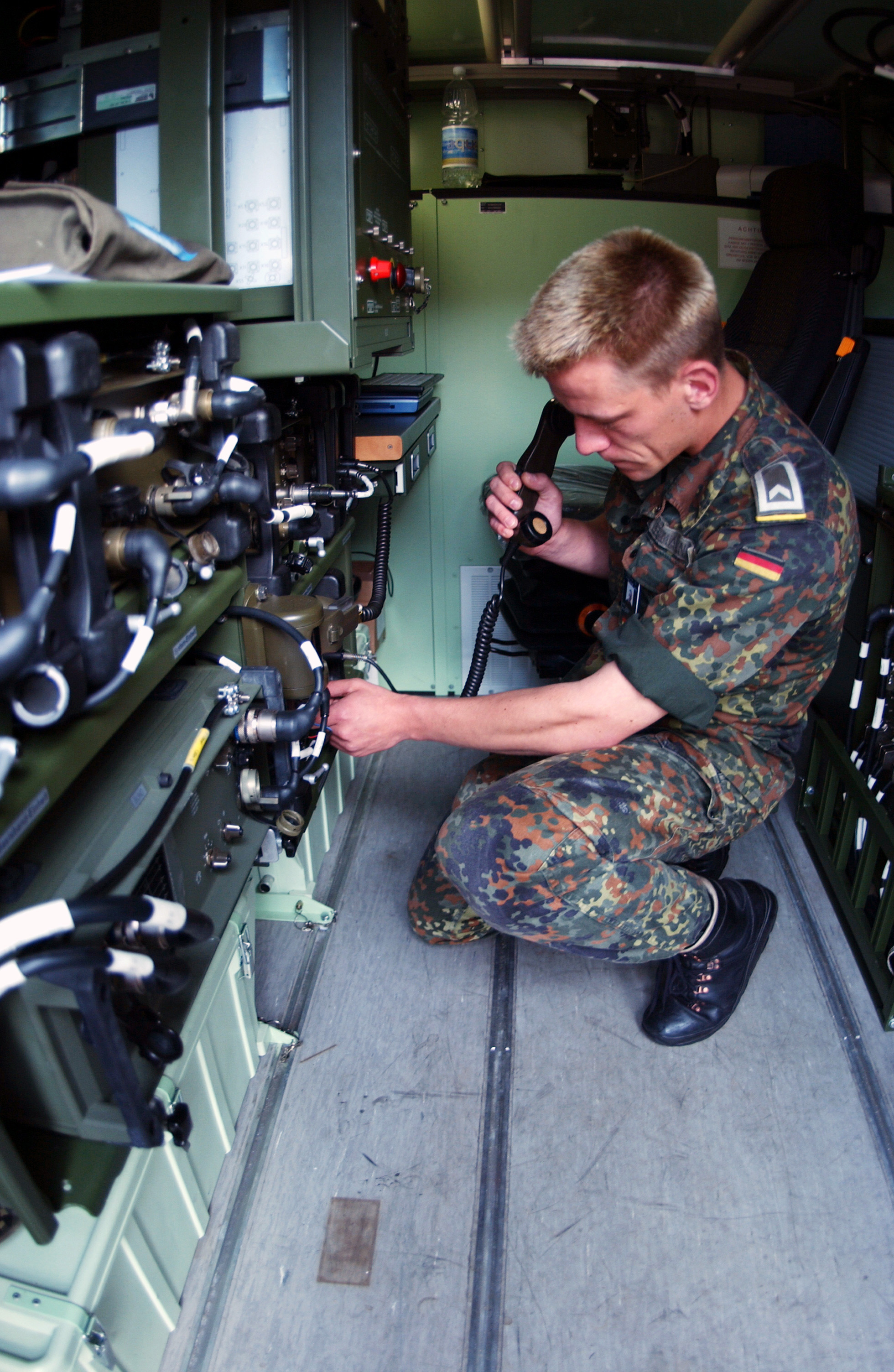 German Army STAFF Sergeant (SSG) Karsten Lehmann, Broadband Integrated Command Post Communications Network (BIGSTAF) Operator, wires through a Line Termination Unit (LTU) to connect satellite communication cables at Lager Aulenbach, Germany, during Exercise COMBINED ENDEAVOR 2003. The Exercise is a Partnership for Peace (PfP) exercised hosted by Germany, and is the largest information and communications systems exercise in the world which focuses primarily on Command, Controls, Communications, and Computers (C4), interoperability testing and documentation.